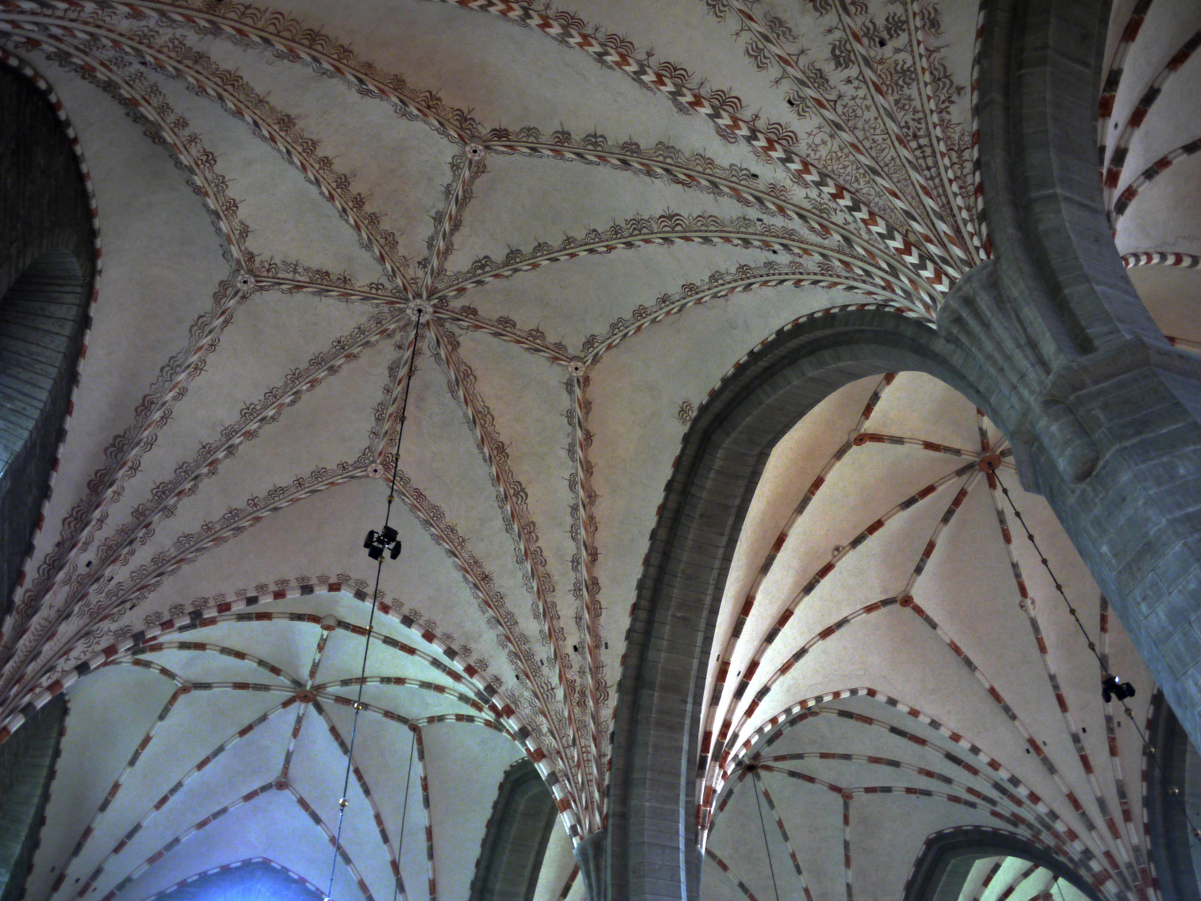 Vadstena Monastery Church. Vaults. Vadstena, Sweden.